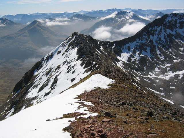 Carn Mor Dearg Arete. This photo was taken on the descent from Carn Mor Dearg at 13:20 on 5th April, 2003.